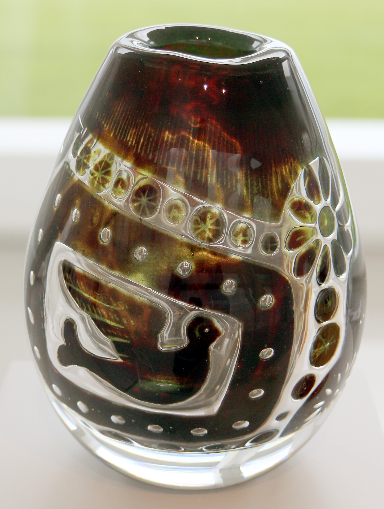 Glassware in the Milwaukee Art Museum